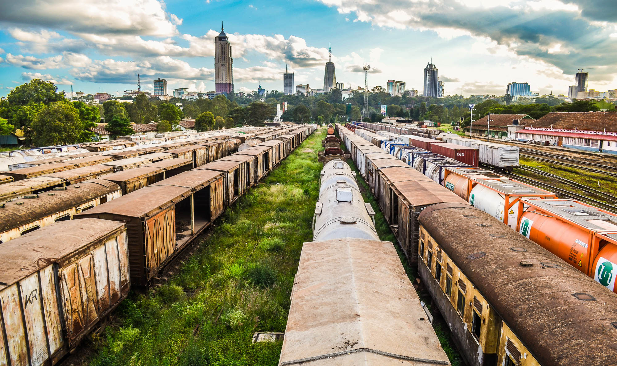 The station yard was built in 1899 and saw structural additions throughout the 20th century.This was the site of the first stone building in Nairobi in 1904 which was a Catholic church. That church now meets at the Cathedral Basilica of the Holy Family. When the railway connection between Kenya and Tanzania closed in 2006, rail services ceased to operate between the two countries. A bus route, however, provides international transport between Nairobi and Arusha . This is an image with the theme "Africa on the Move or Transport" from: Kenya